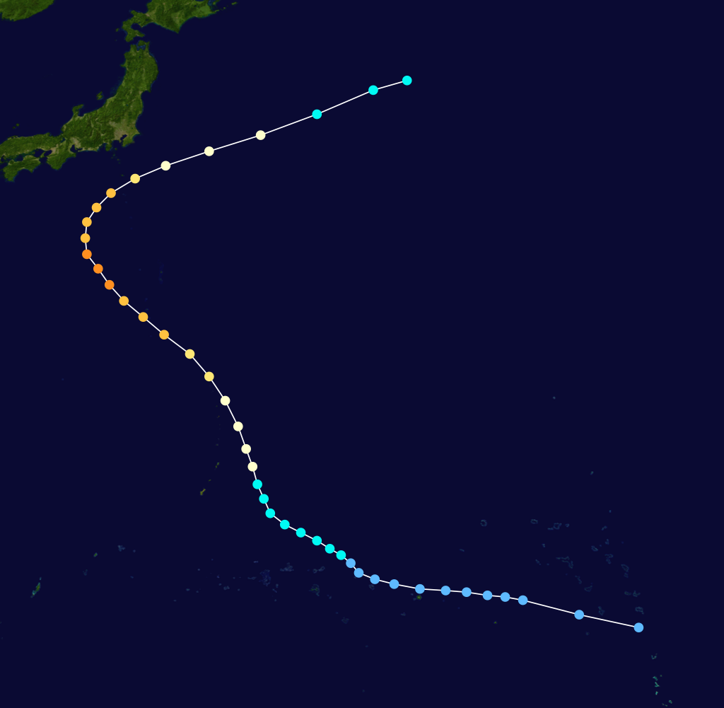 Typhoon Ivy 1991 track. Uses the color scheme from the Saffir-Simpson Hurricane Scale.